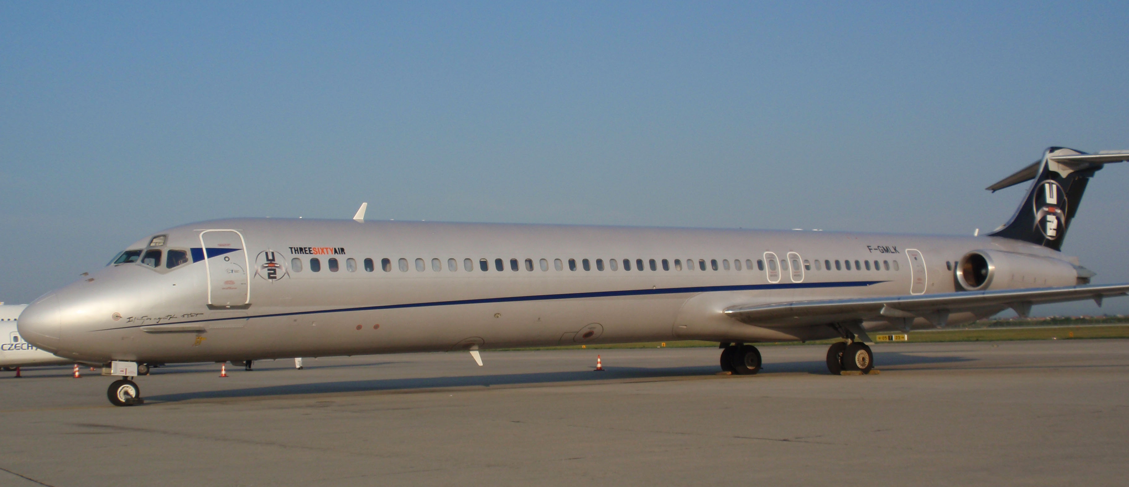 McDonnell Douglas MD-83, U2 in Zagreb, 2009-August-09